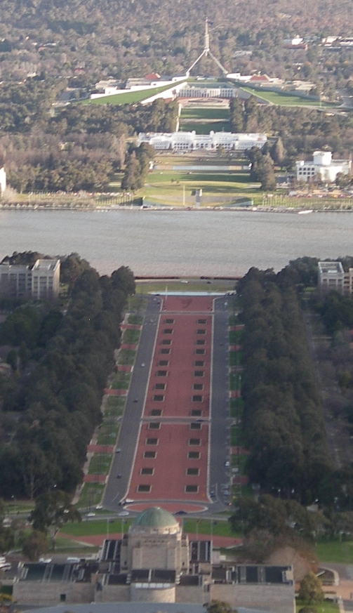 Canberra, capital of Australia. showing main axis with Australian War Memorial, Anzac Parade, Lake Burley Griffin, Old and New Parliament Houses.